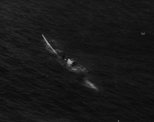 The German submarine U-515 sinking by the bow. On 9 April, U-515 was attacked north of Madeira by the destroyer escorts USS Pillsbury (DE-133), USS Pope (DE-134), USS Flaherty (DE-135) and USS Chatelain (DE-149). Flooding and loss of depth control forced the U-Boat to the surface, where she was sunk by rockets fired from Grumman Avenger and Grumman Wildcat of Compoiste Squadron 58 (VC-58) from the escort carrier USS Guadalcanal (CVE-60) and gunfire from the ships. Sixteen of U-515's crew were killed, but 44 survived the attack.